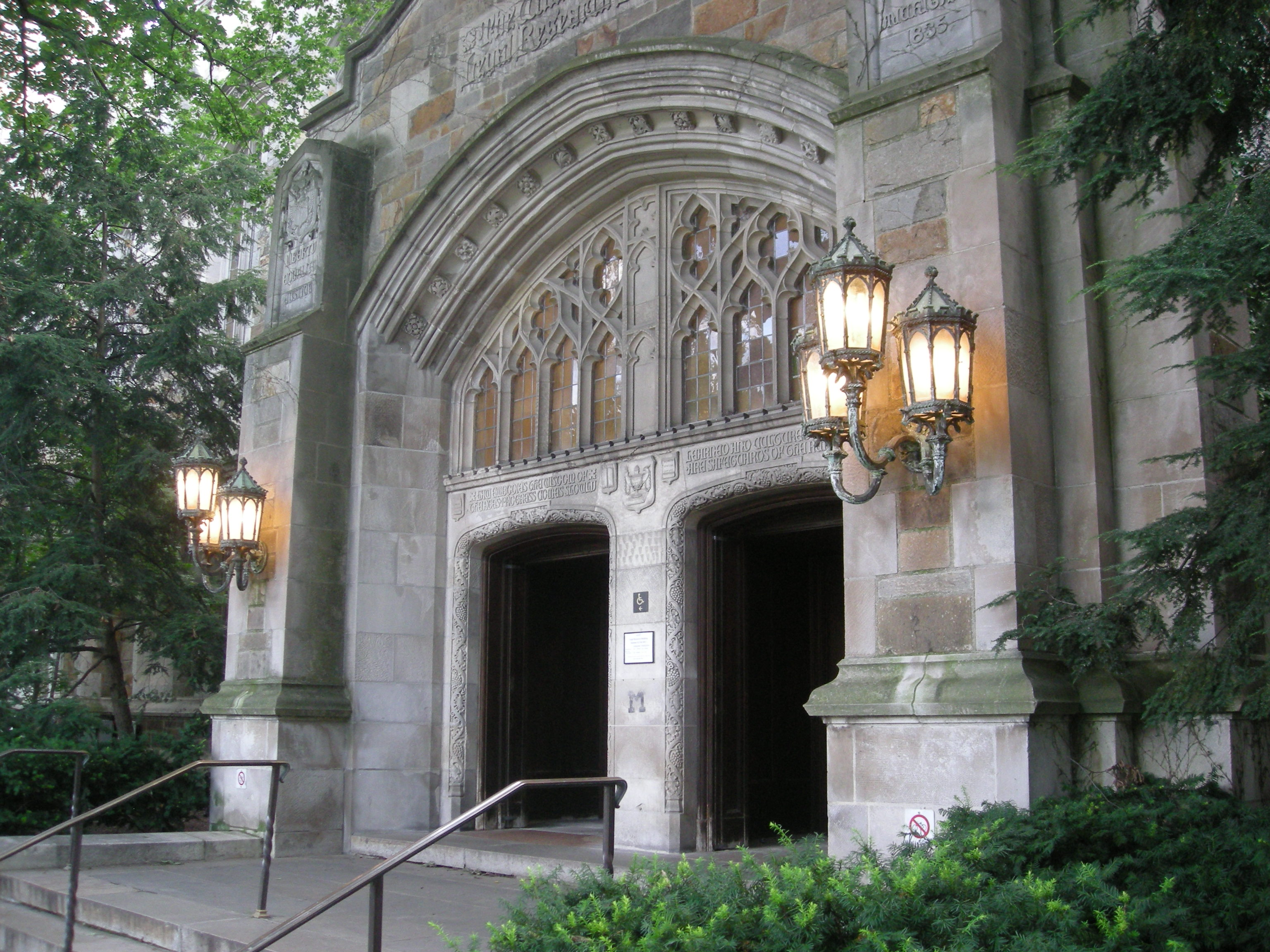 The Law Library on the central campus of the University of Michigan in Ann Arbor, Michigan (United States).